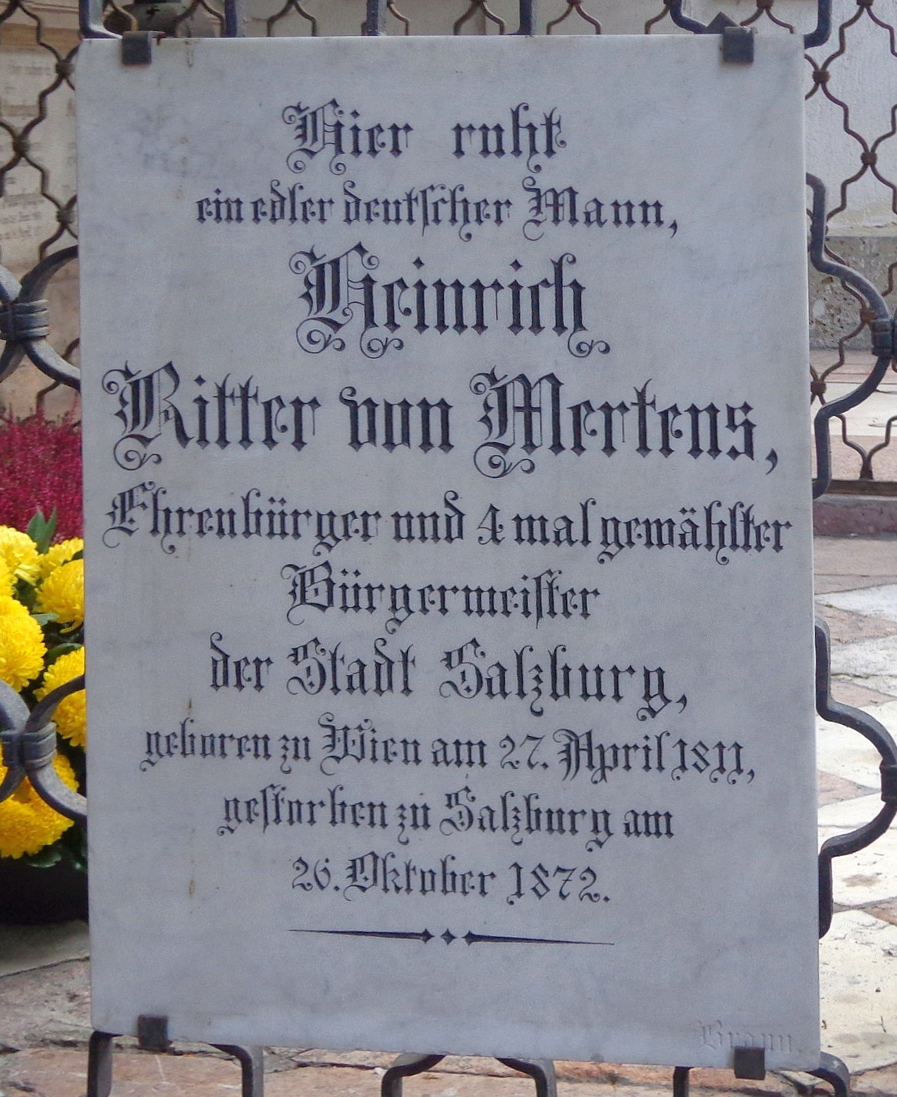 Crypt 19 (Petersfriedhof Salzburg) Domkapitel